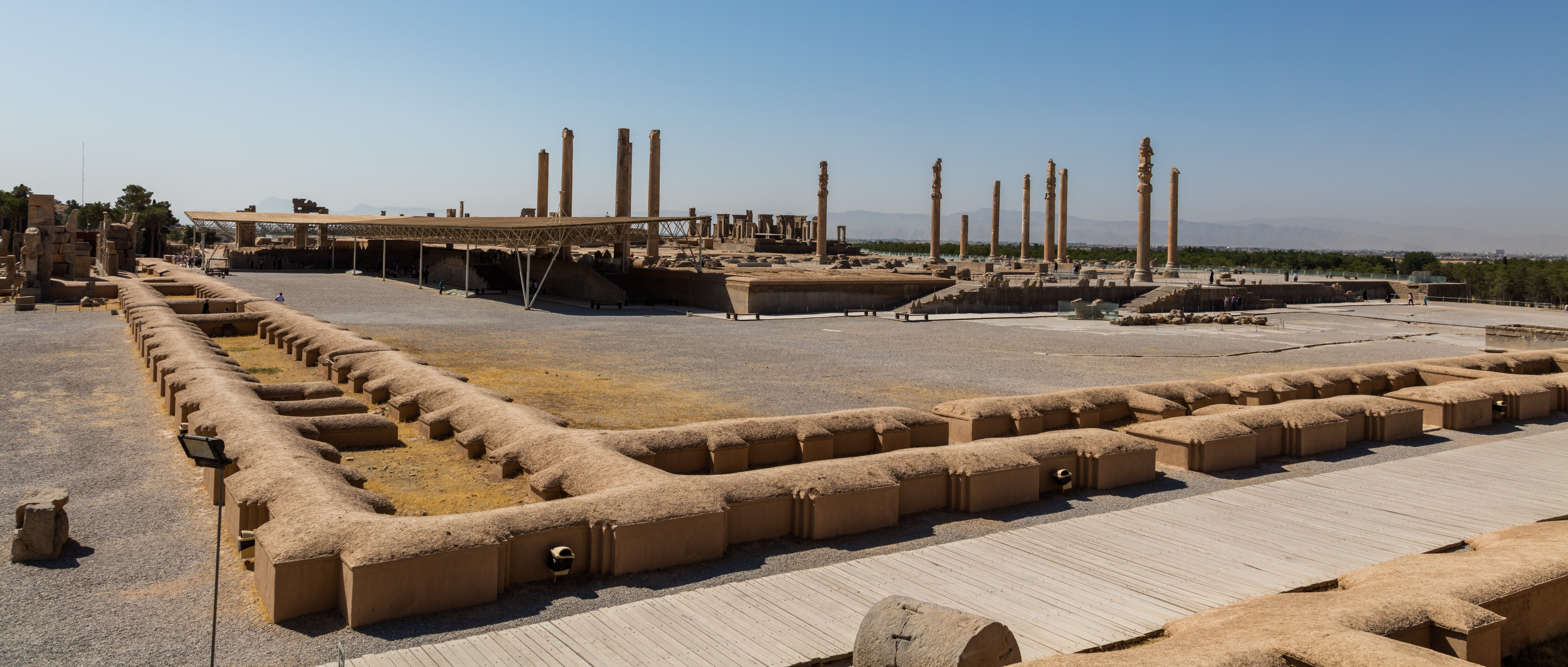 Persepolis, Iran